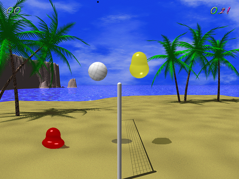 Blobby Volley Alpha 6 Screenshot